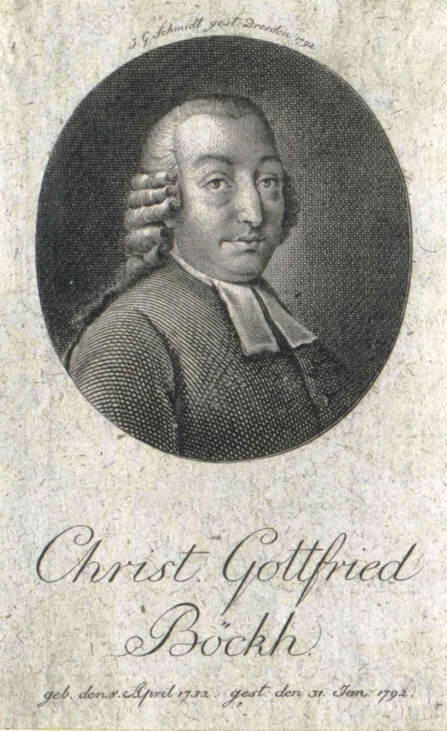 Christian Gottfried Boeckh (1732–1792)